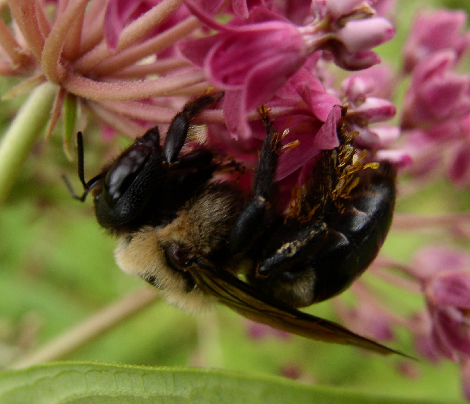 Carpenter bee (Xylocopa virginica) carrying pollinia from milkweed flowers. Peace Valley Nature Center, Bucks County, Pennsylvania, USA.